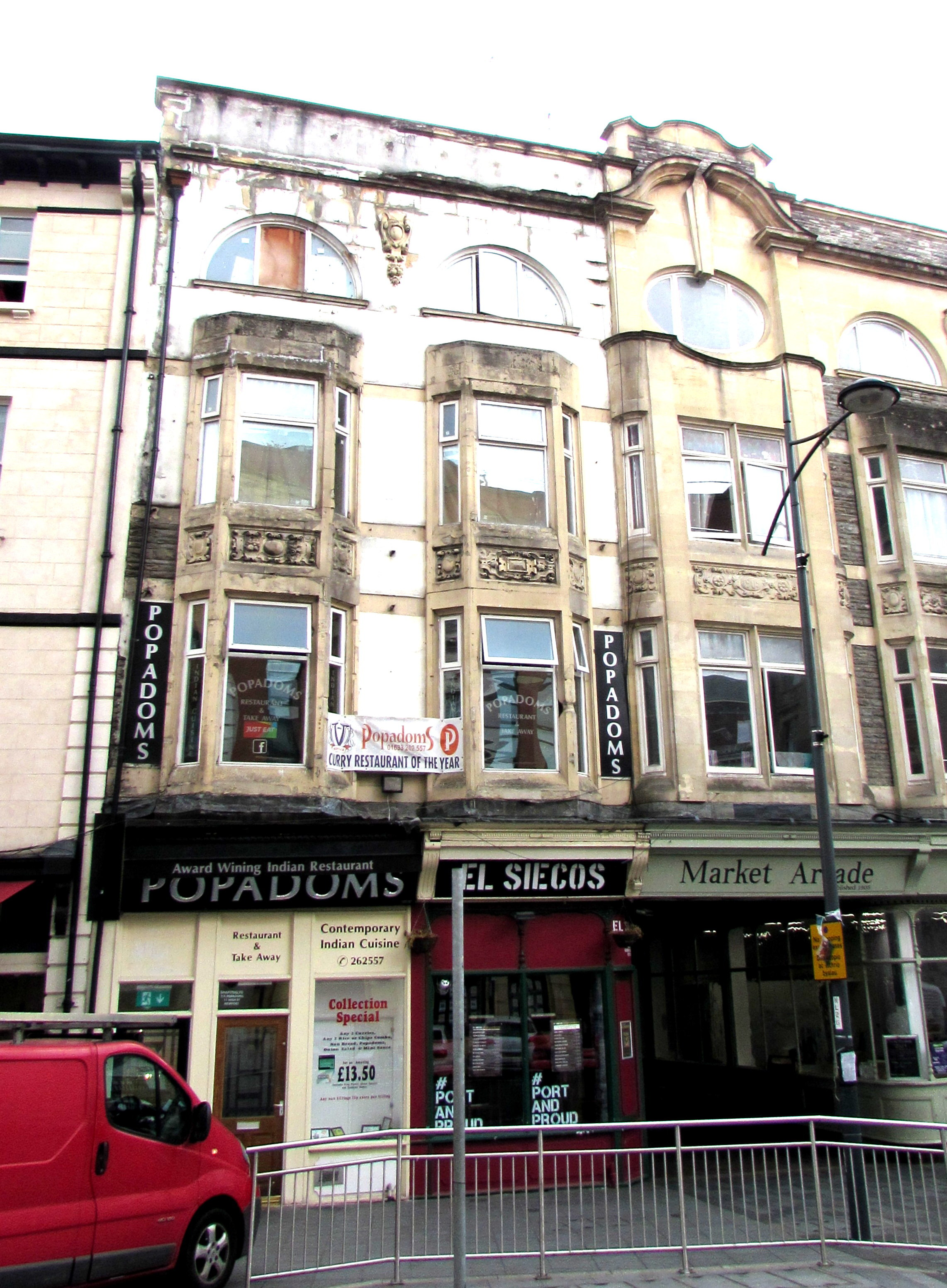 The former site of El Sieco's bar, which replaced the historic TJ's at 11 High Street, Newport. El Sieco's is run by son of TJ's founder John Sicolo. It is now located next to Newport Market.